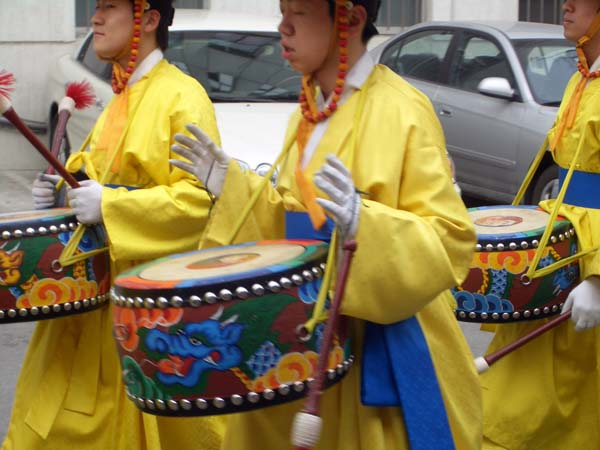 The parade is representing royal march of Joseon Dynasty and performing Piri jeongak and Daechwita (피리정악 및 대취타 大吹打) in Seoul